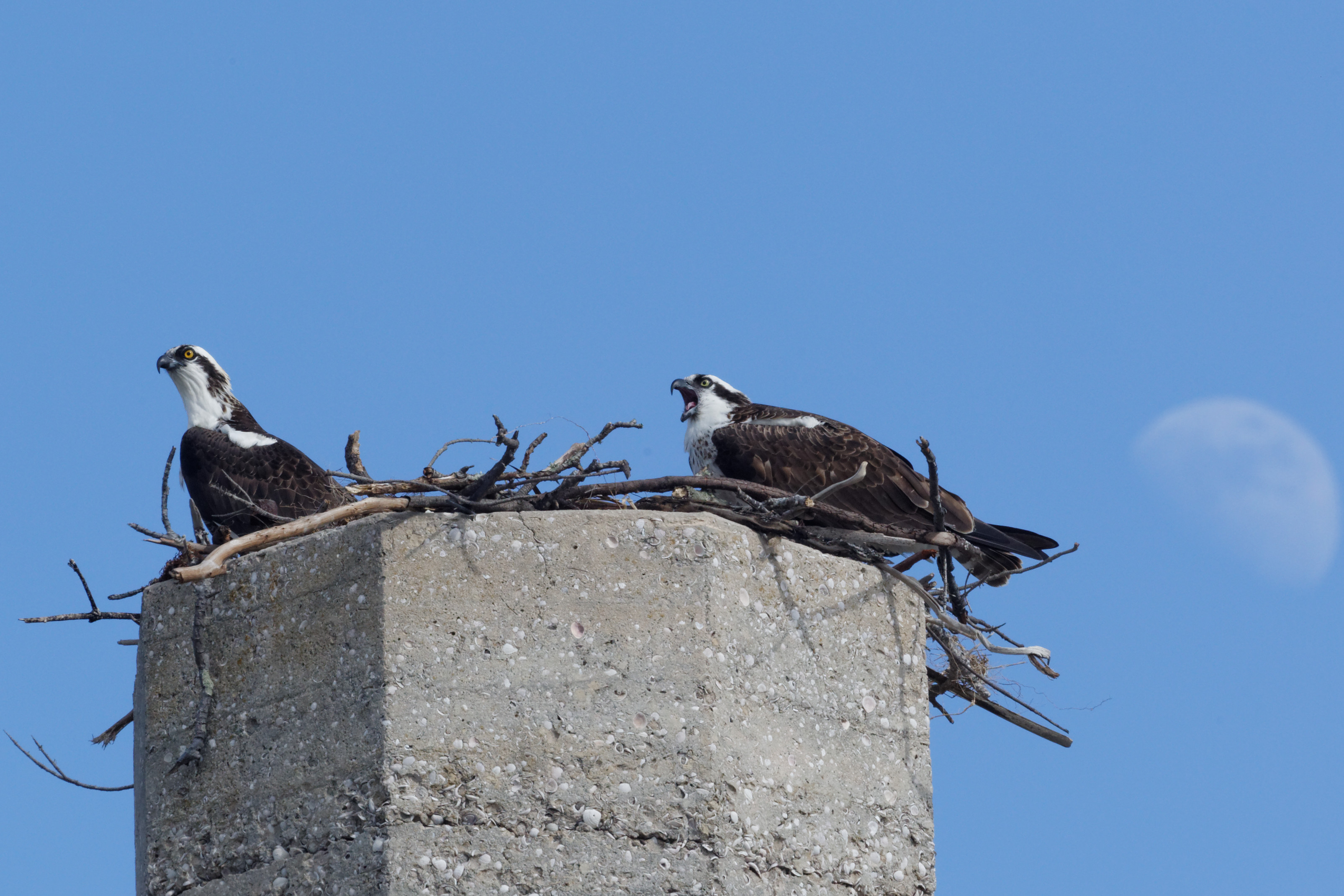 Fort De Soto Park